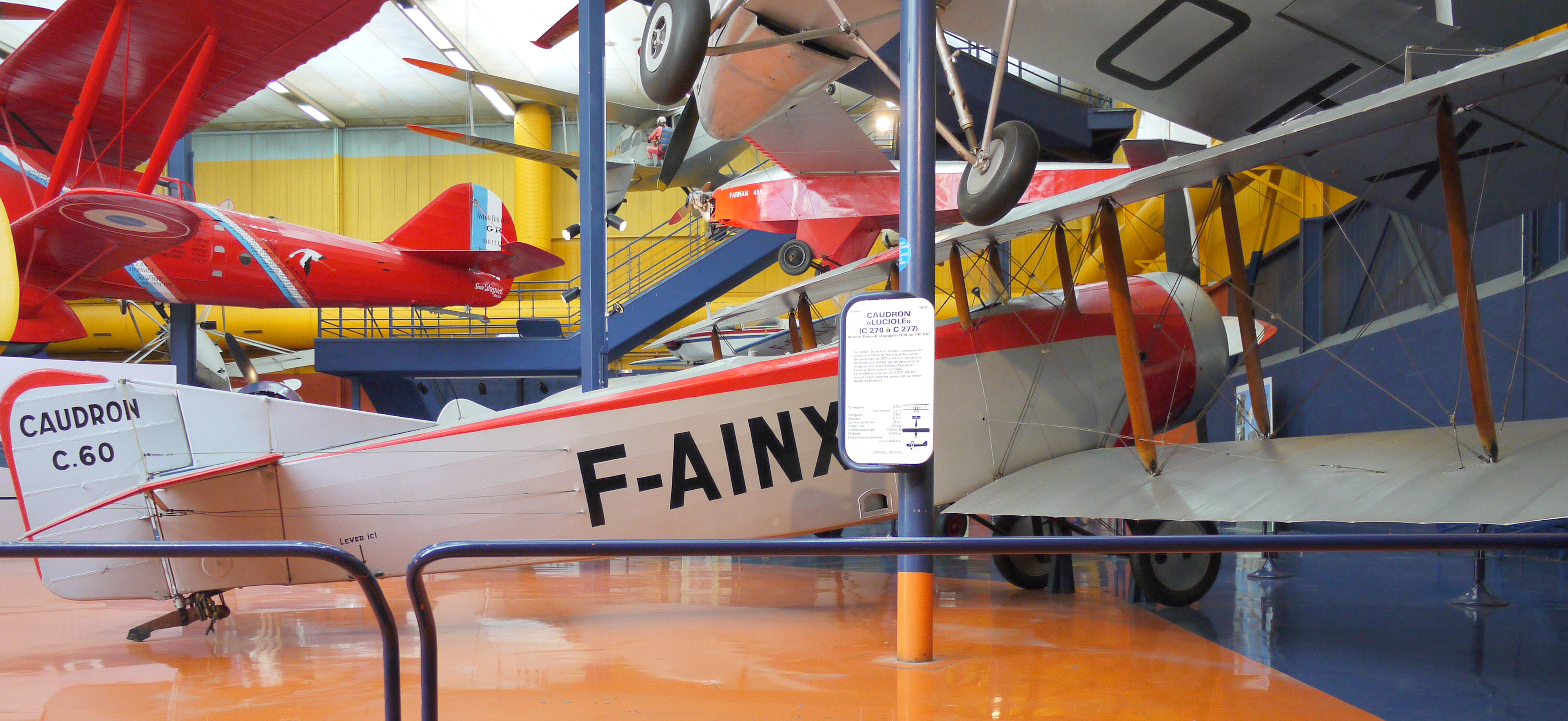 CaudronC60 training aircraft (1921), Museum of Air and Space Paris, Le Bourget (France)